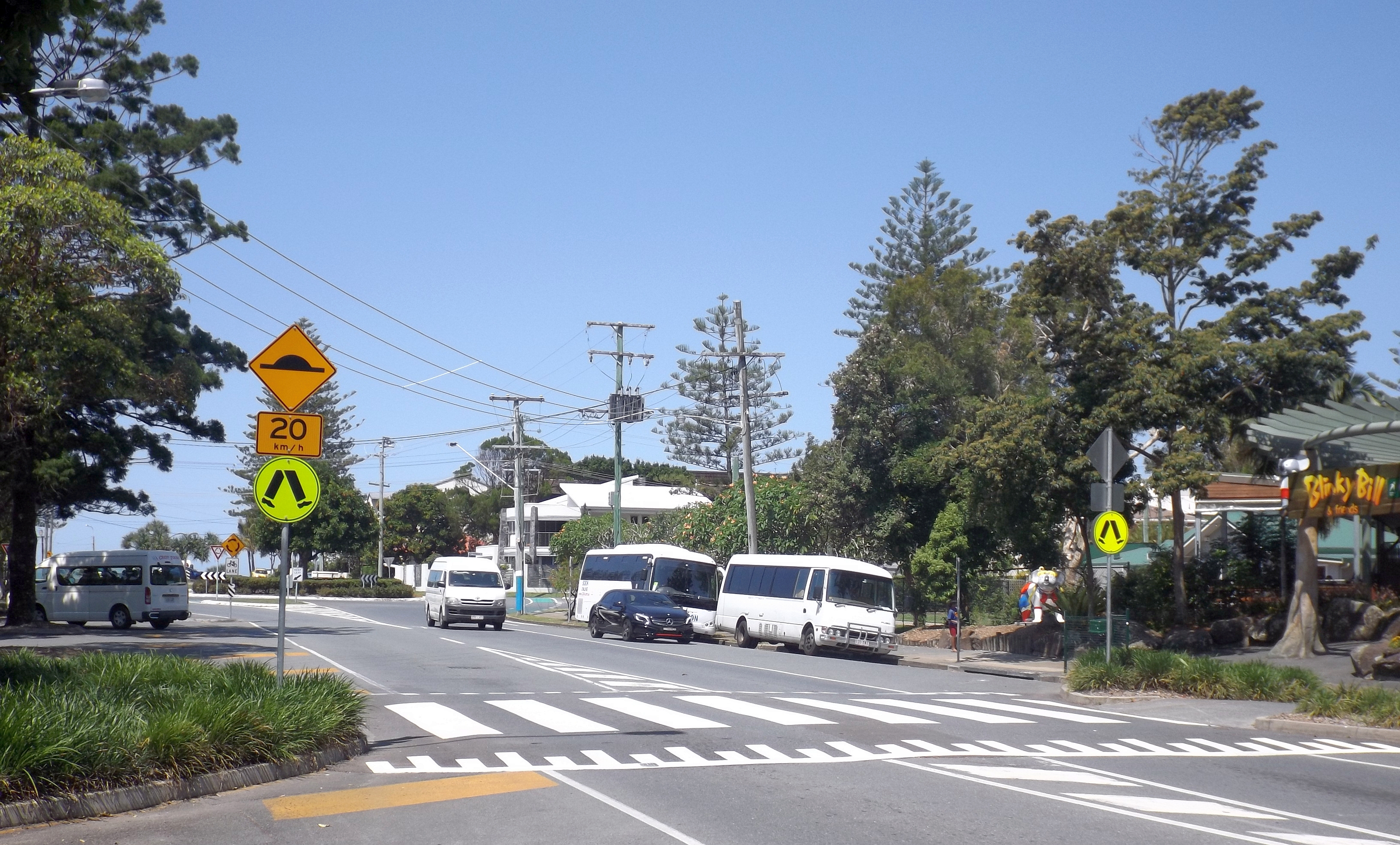 Photo of Tomewin Street Currumbin, Gold Coast City, Queensland, Australia.